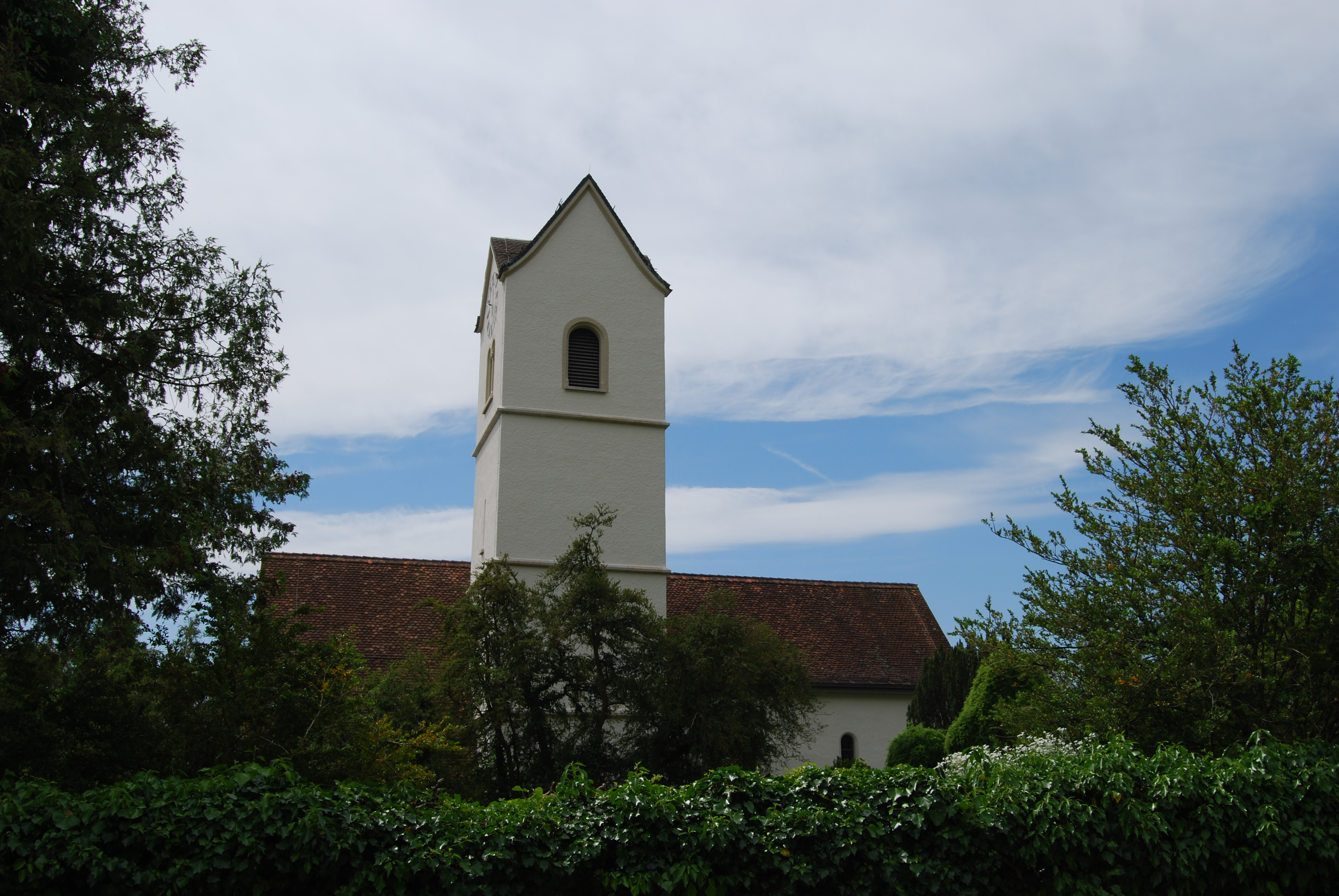 Protestant Church of Pieterlen, canton of Bern, Switzerland